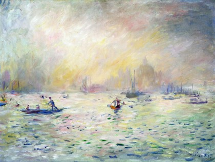 Venice—Fog (Venise—brouillard)